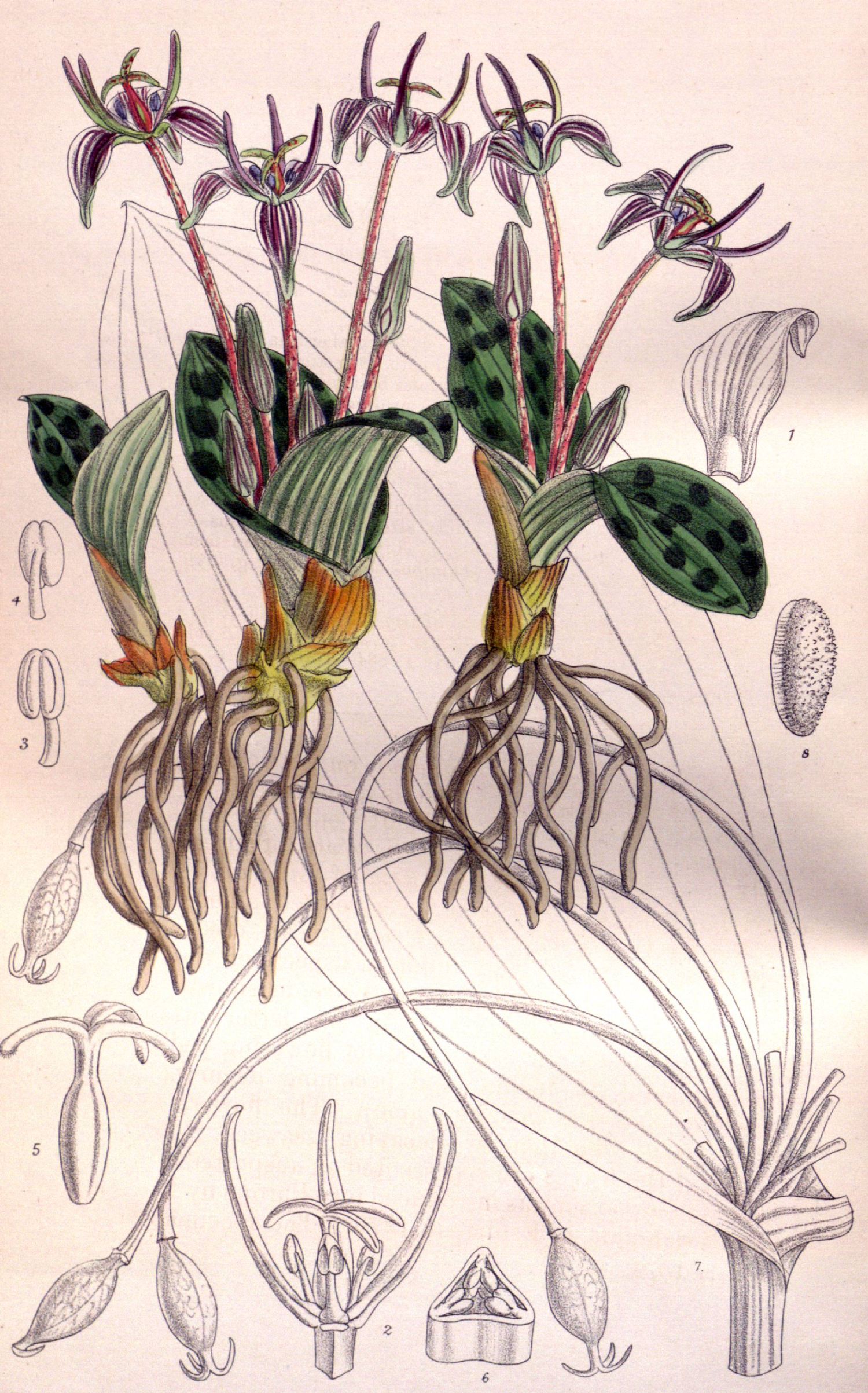 Scoliopus bigelovii